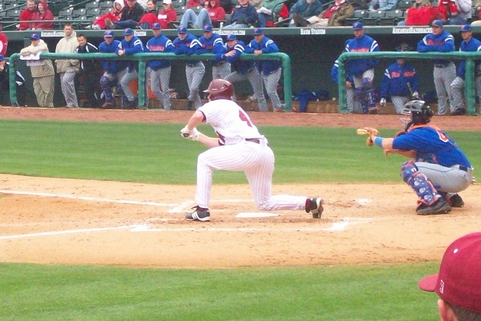 Andrew Darr, member of the w:2009 Arkansas Razorbacks baseball team, bunts against Florida